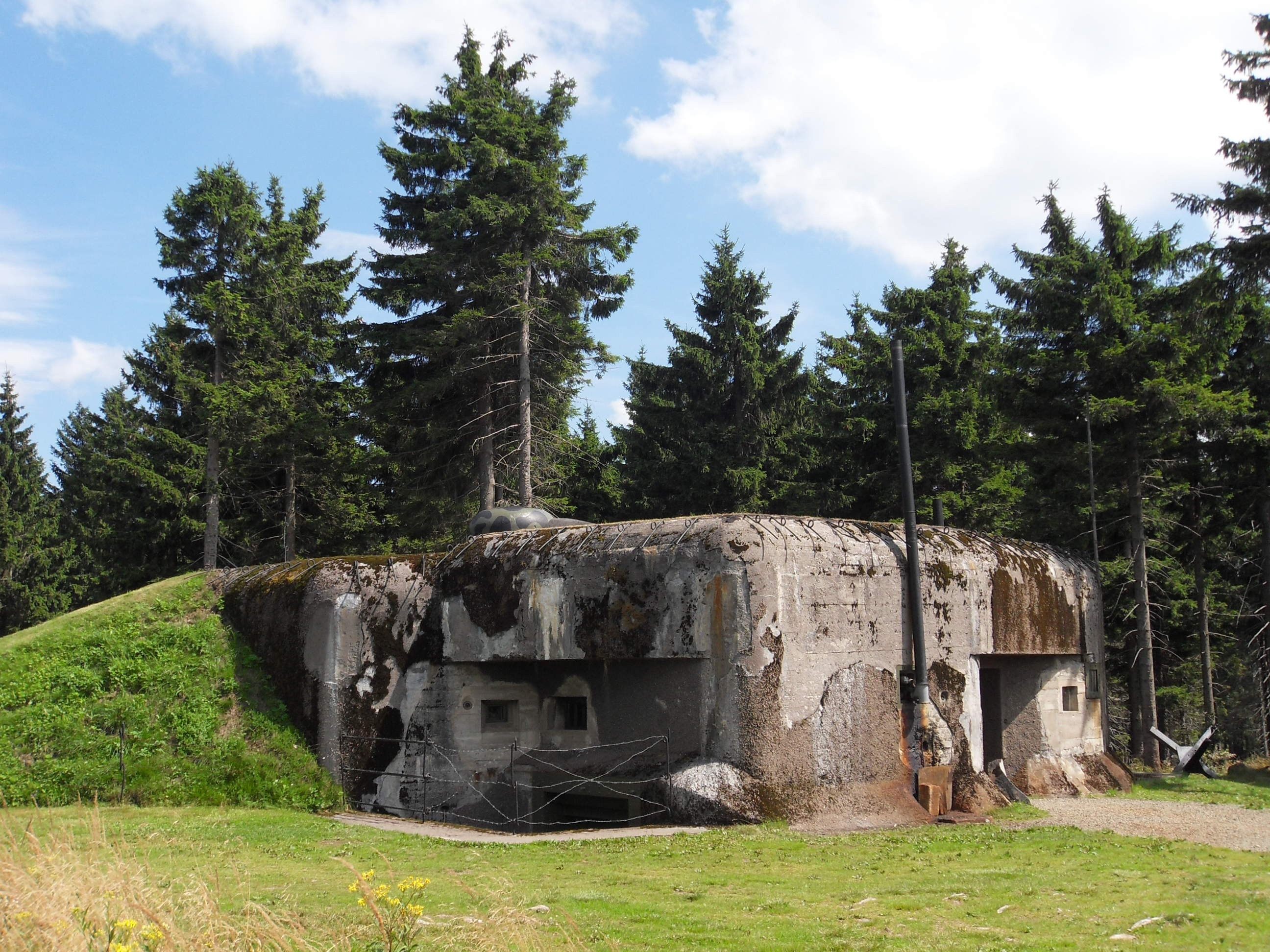 R-S 87 Průsek infantry casemate, Rychnov nad Kněžnou District, Czech Republic